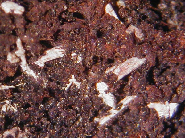 Bassanite (Picture size 4 mm) Fundort: Tolbachik volcano, Kamchatka, Russia White bassanite pseudomorphous after gypsum. Collection and foto Thomas Witzke.